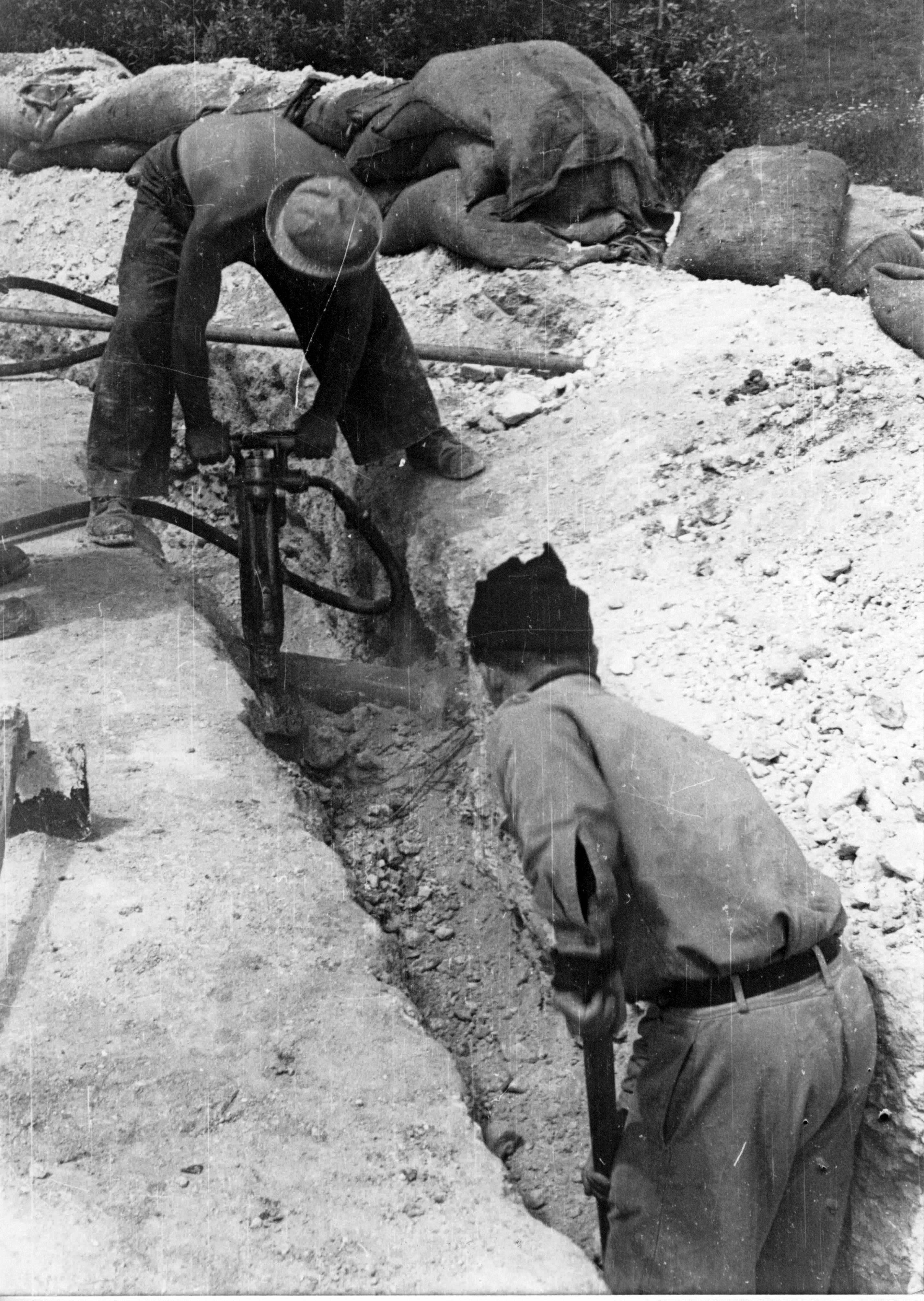 The Palmach, Israel Defense Forces